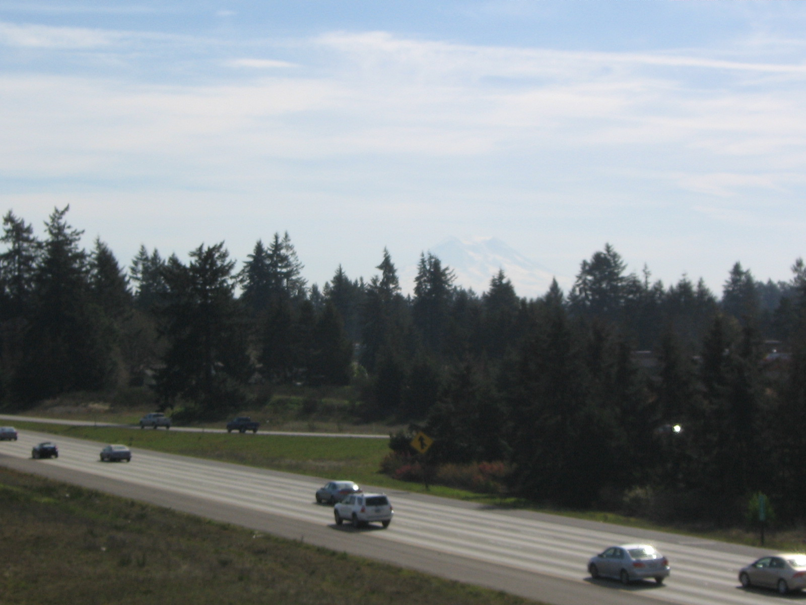 Interstate 5 in Lacey. Mount Rainier visible in the background.